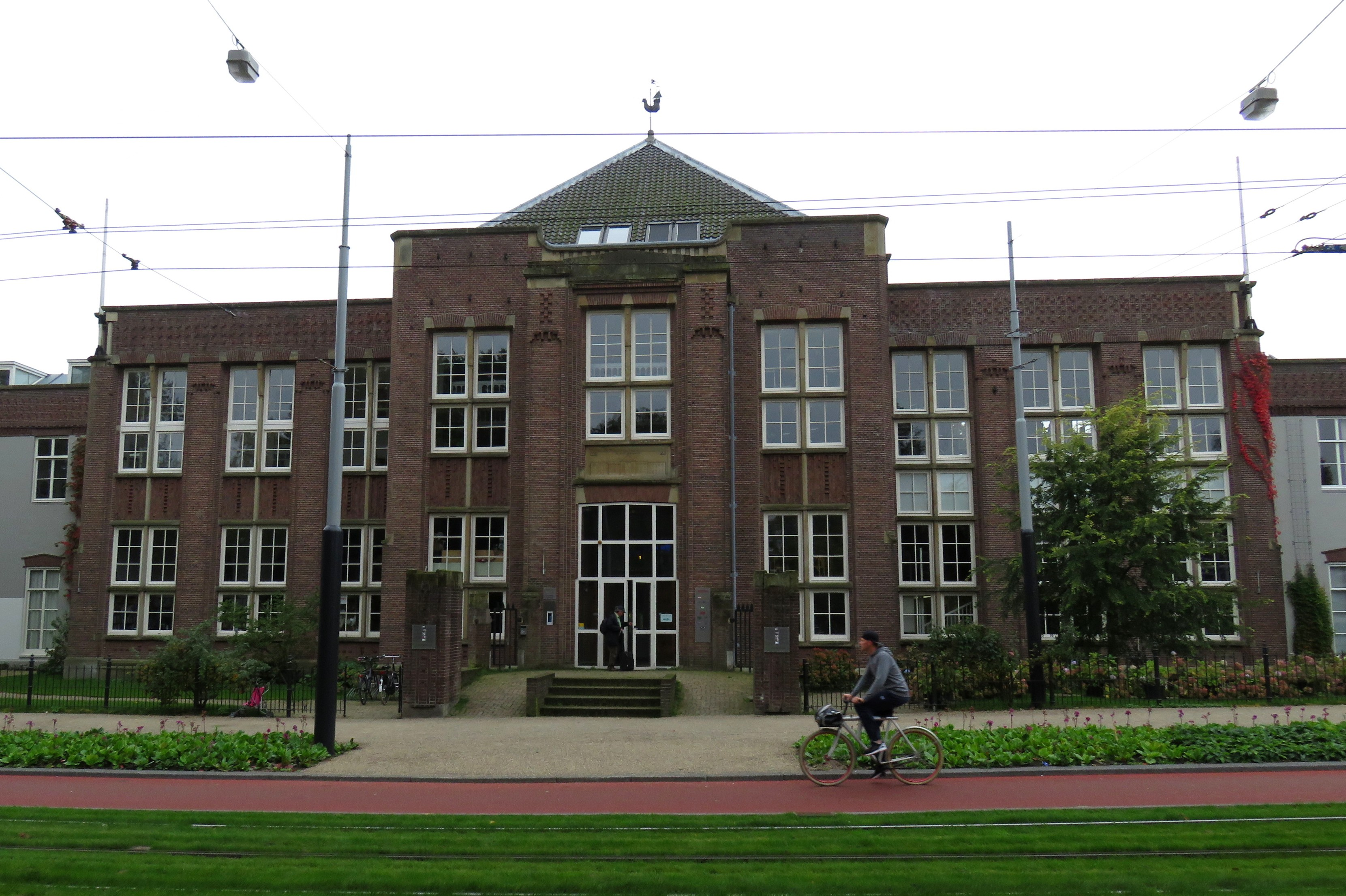 Hugo de Vries laboratorium on the Plantage Middenlaan in Amsterdam (NL). Here the Heimans en Thijsse stichting is situated